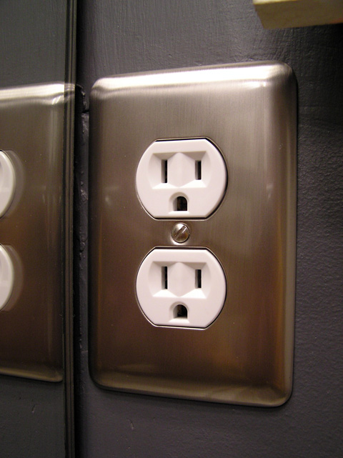 A NEMA 5-15 (120V/15A) duplex receptacle or socket.